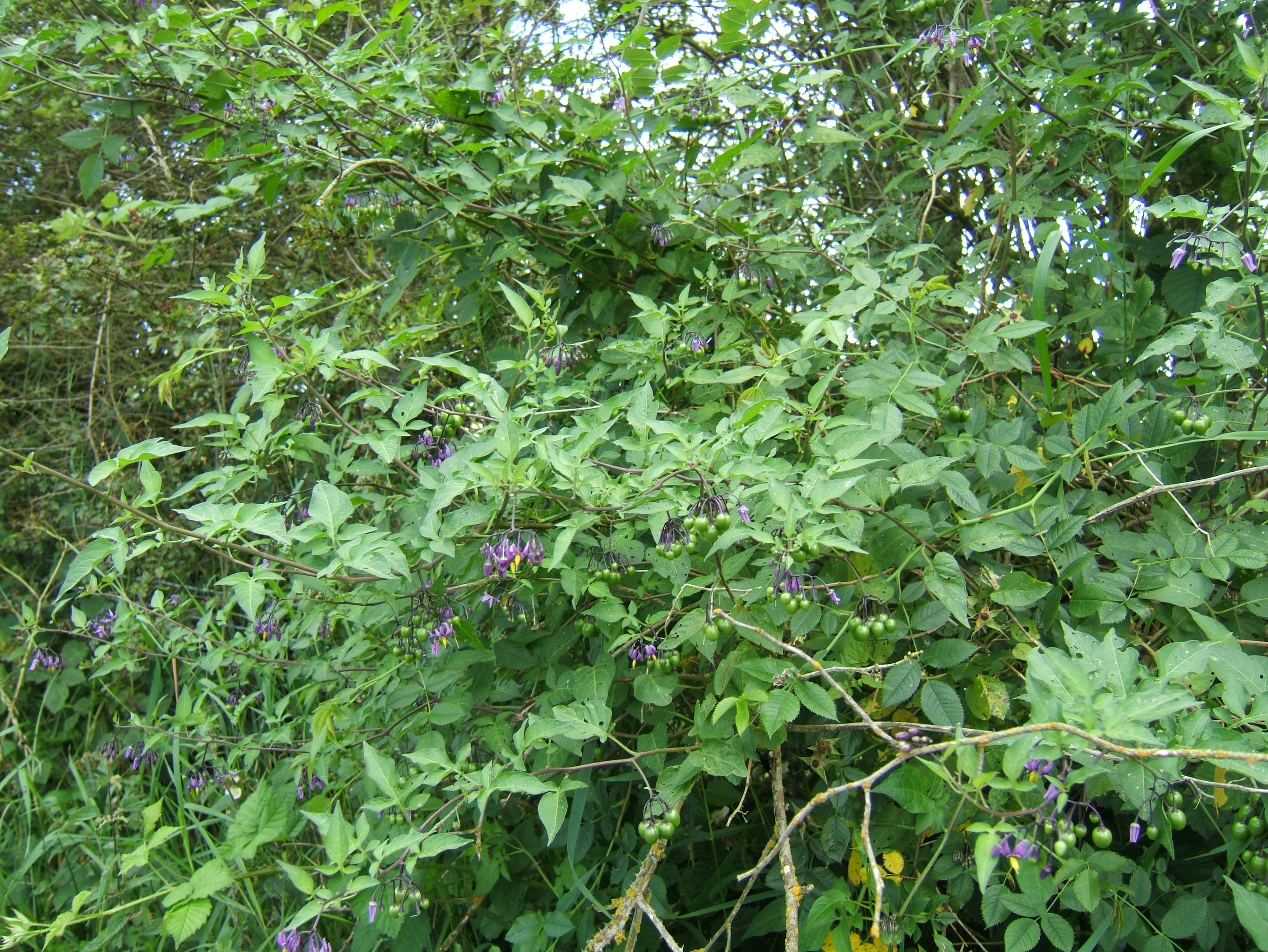 Bittersweet Solanum dulcamara in flower and immature fruit, Big Waters, Northumberland VC67